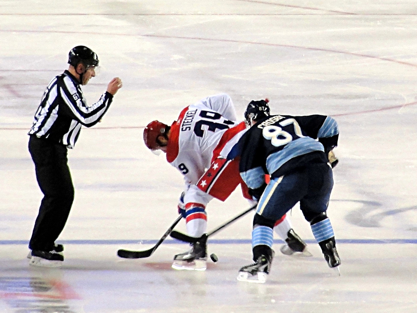 Washington Capitals center David Steckel and Pittsburgh Penguins center Sidney Crosby face off during the 2011 NHL Winter Classic at Heinz Field in Pittsburgh, PA.